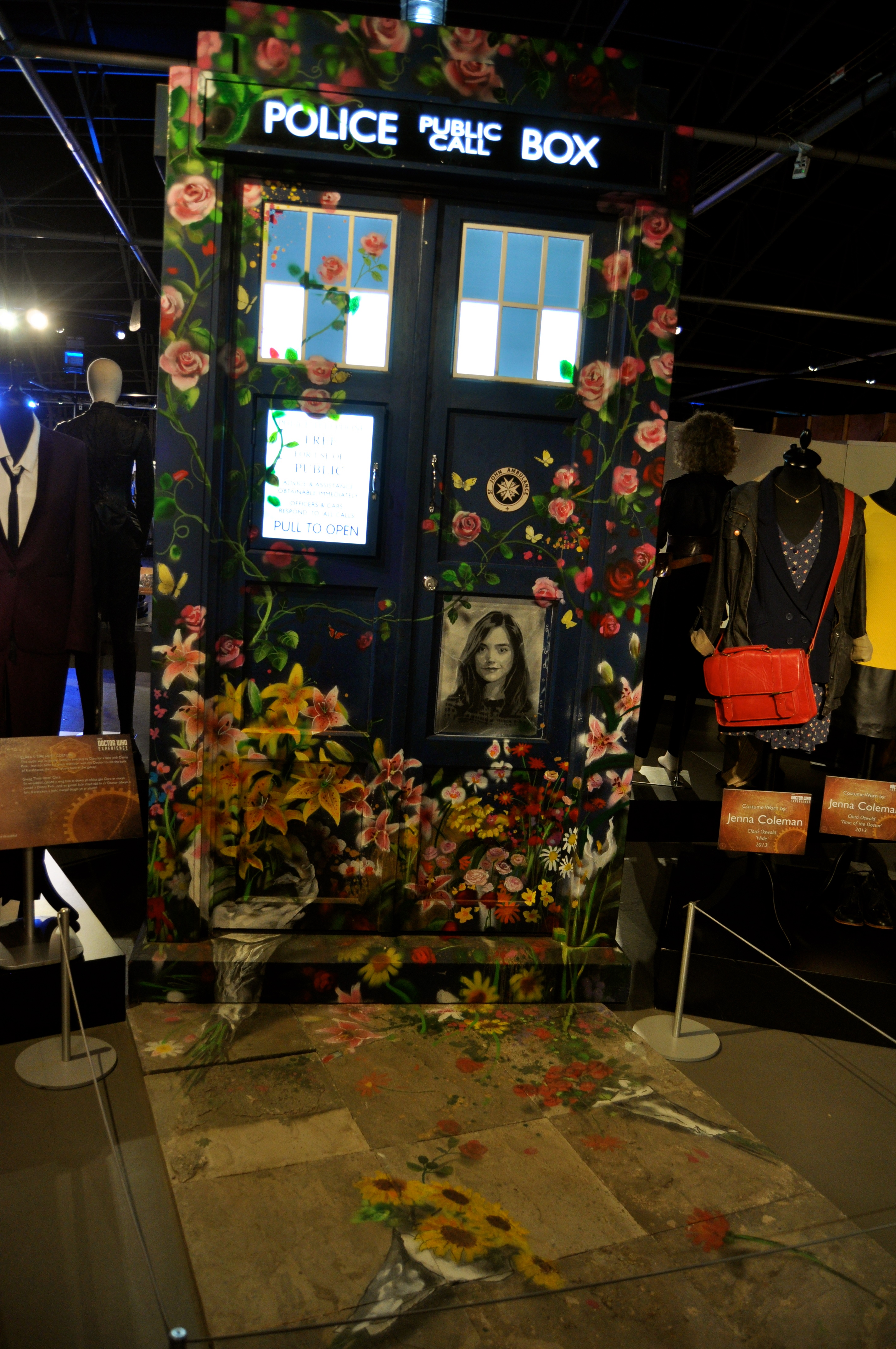 DWE Cardiff Bay, Port Teigr November 2016 Doctor Who Experience